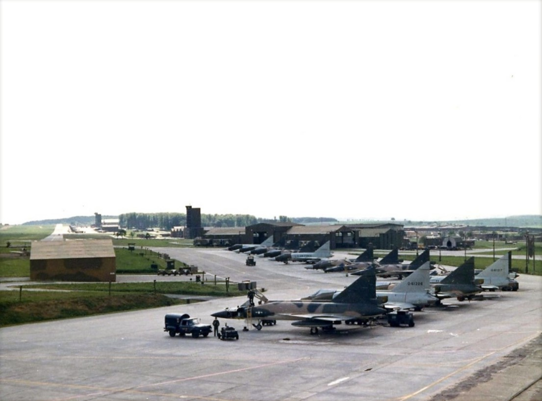 U.S. Air Force Convair F-102A Delta Dagger fighters of the 525th Fighter Interceptor Squadron Bulldogs, 86th Air Division, on the flight line at Bitburg Air Base, (West) Germany, in 1967. Note that part of the F-102s are already camouflaged.